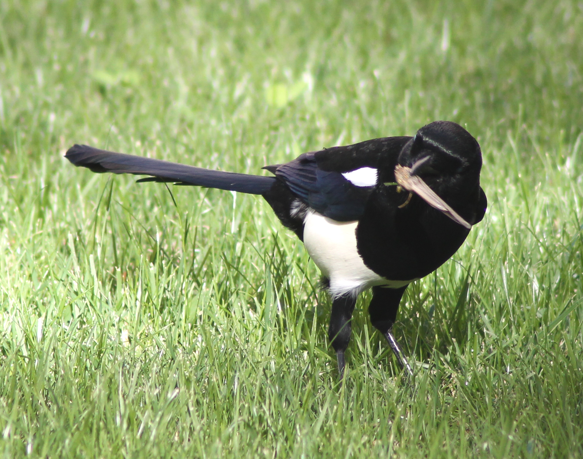 A European magpie (Pica pica) eating a grasshopper in Madrid (Spain).